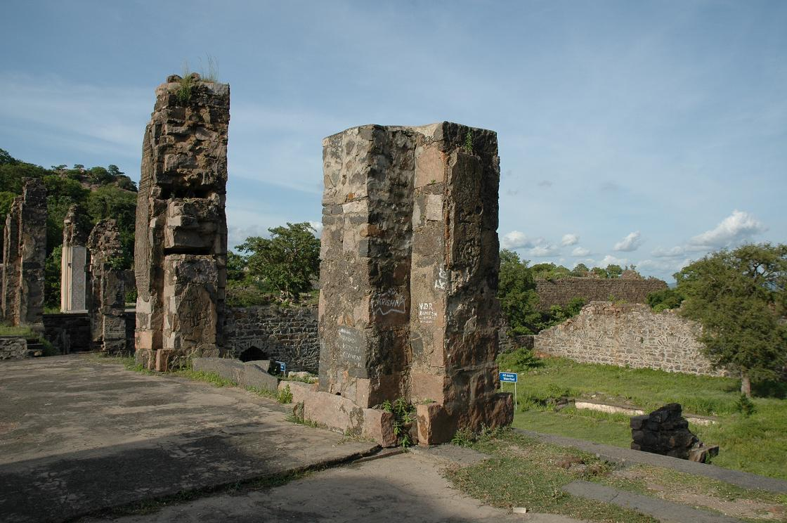 Manne Praveen